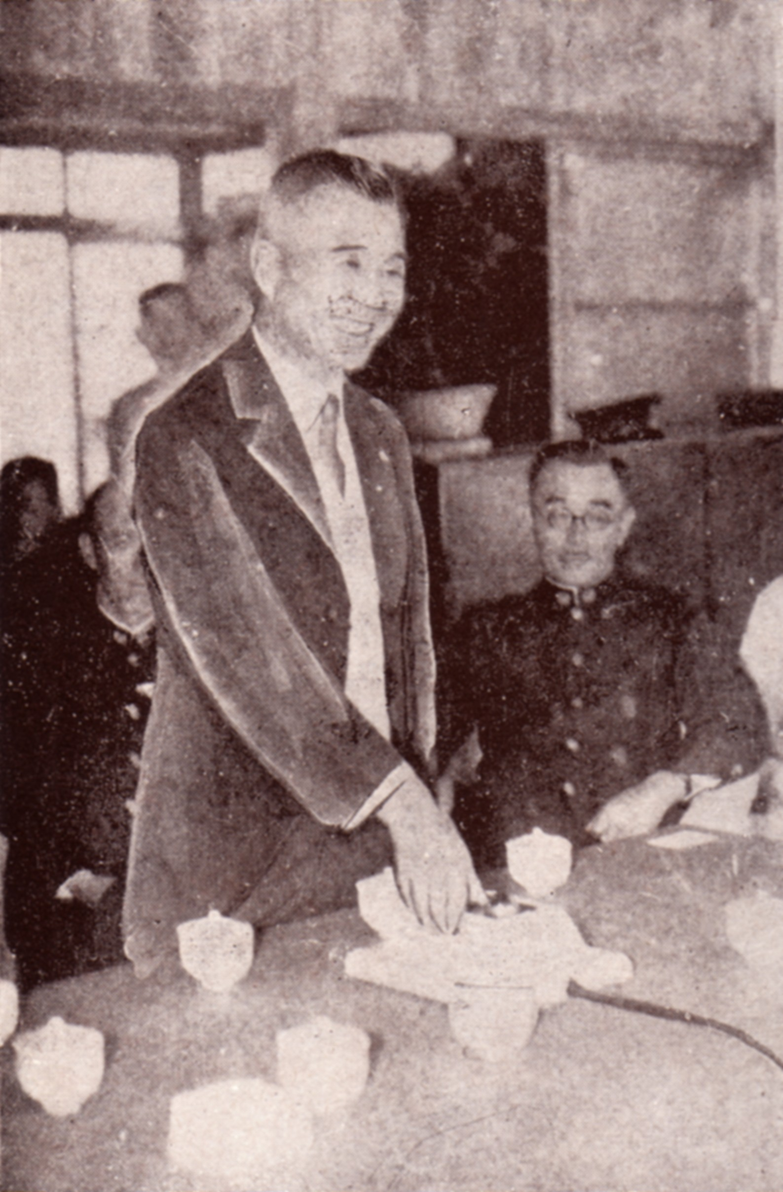 KUGIMIYA Iwao, the head of Shimonoseki construction office, switches on blasting for break through of Kammon railway tunnel